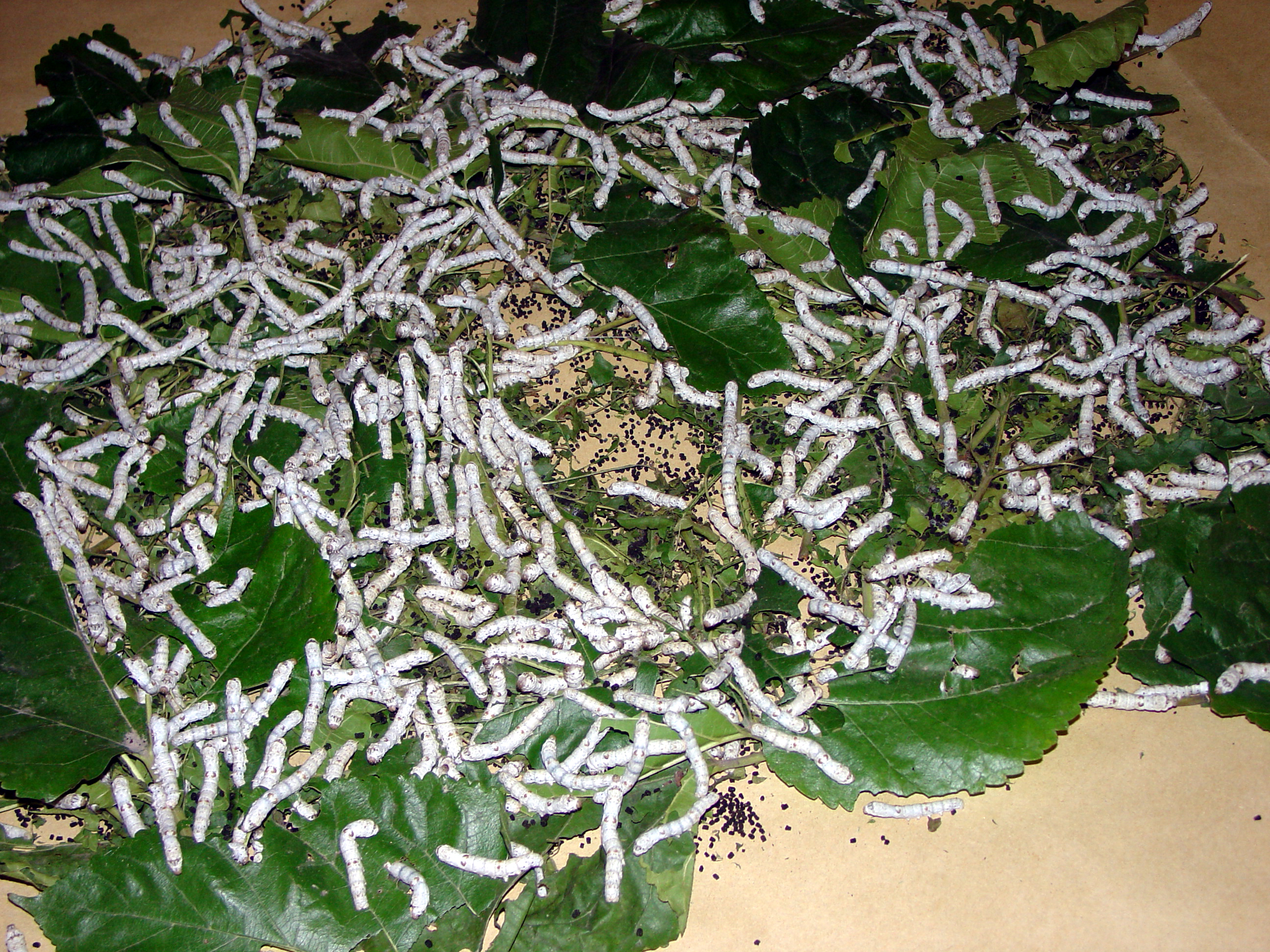 Silkworms. #1 Silk Factory, Suzhou